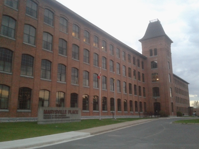 Marysville Cotton Mill National Historic Site of Canada